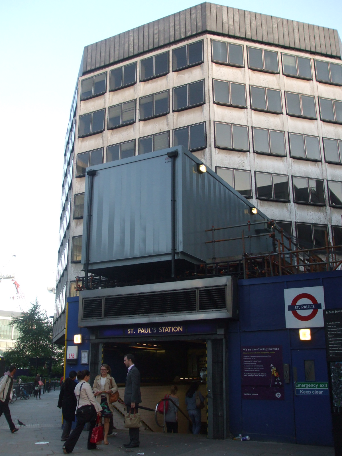 St. Paul's tube station western entrance, undergoing refurbishment, July 2008